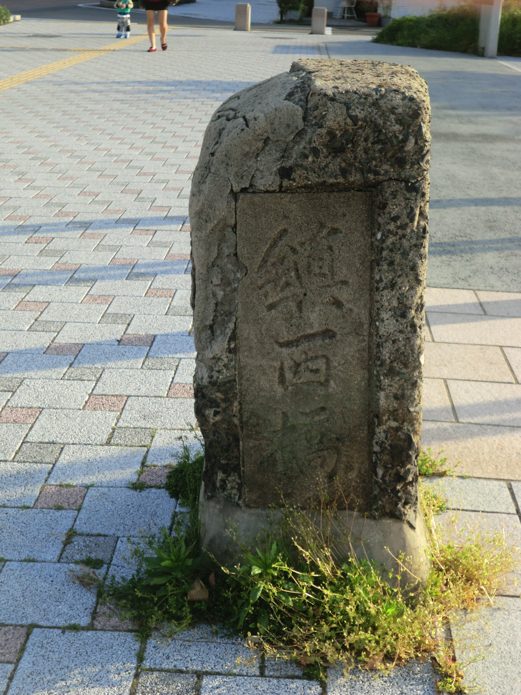 Pillar ruin of Chinzei bridge at Mojiko area, Kitakyushu, Fukuoka, Japan.